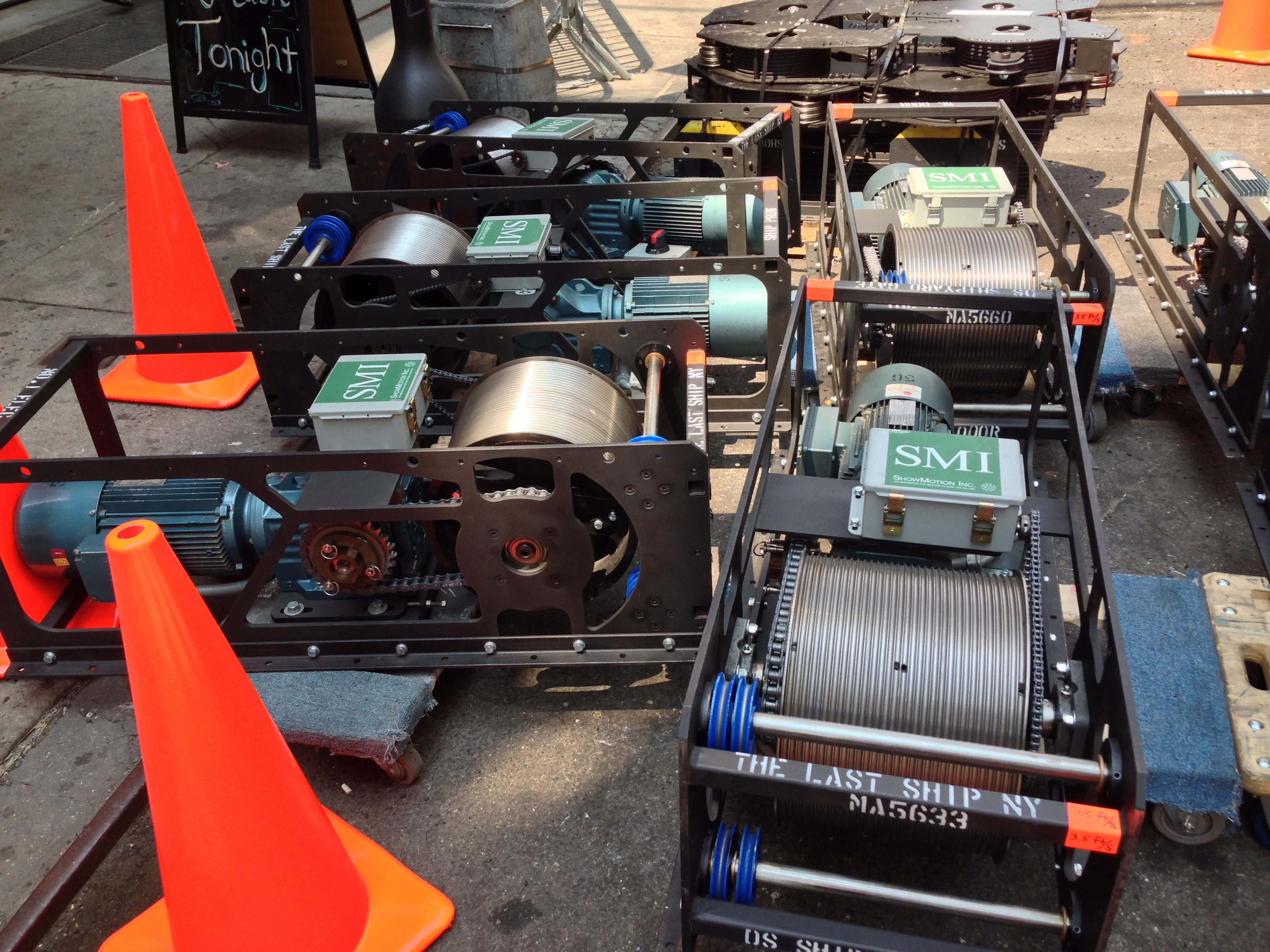 Drum hoists (front) and head blocks (back) ready to be installed in a theater in New York City.